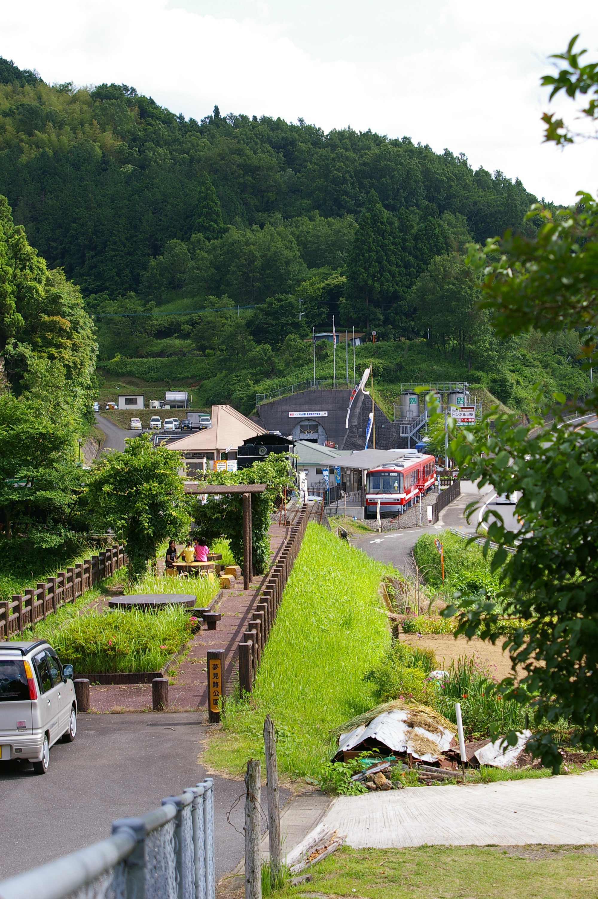 The canceled railroad using as "Tunnel no Eki" park in Takachiho-cho, Miyazaki Pref., Japan